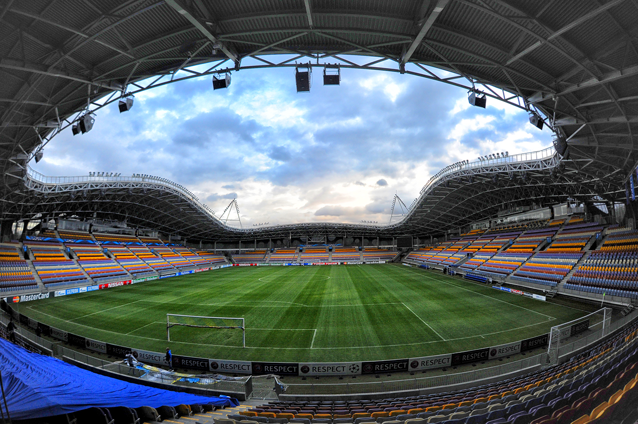 Barysaw-Arena (Borisov Arena) in Barysaw, Minsk Voblast, Belarus